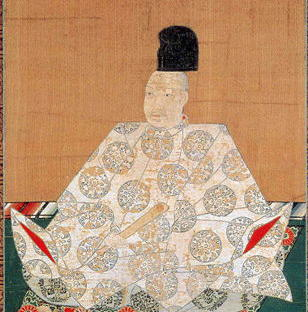 正親町天皇尊影; This is a representation of Japanese Emperor Ogimachi (1517-1586). The original artwork and the Commons image of are formatted in a "portrait" format. The proportions of the original are more artistically pleasing; however, the cropped format is square, which functions better in an infobox.